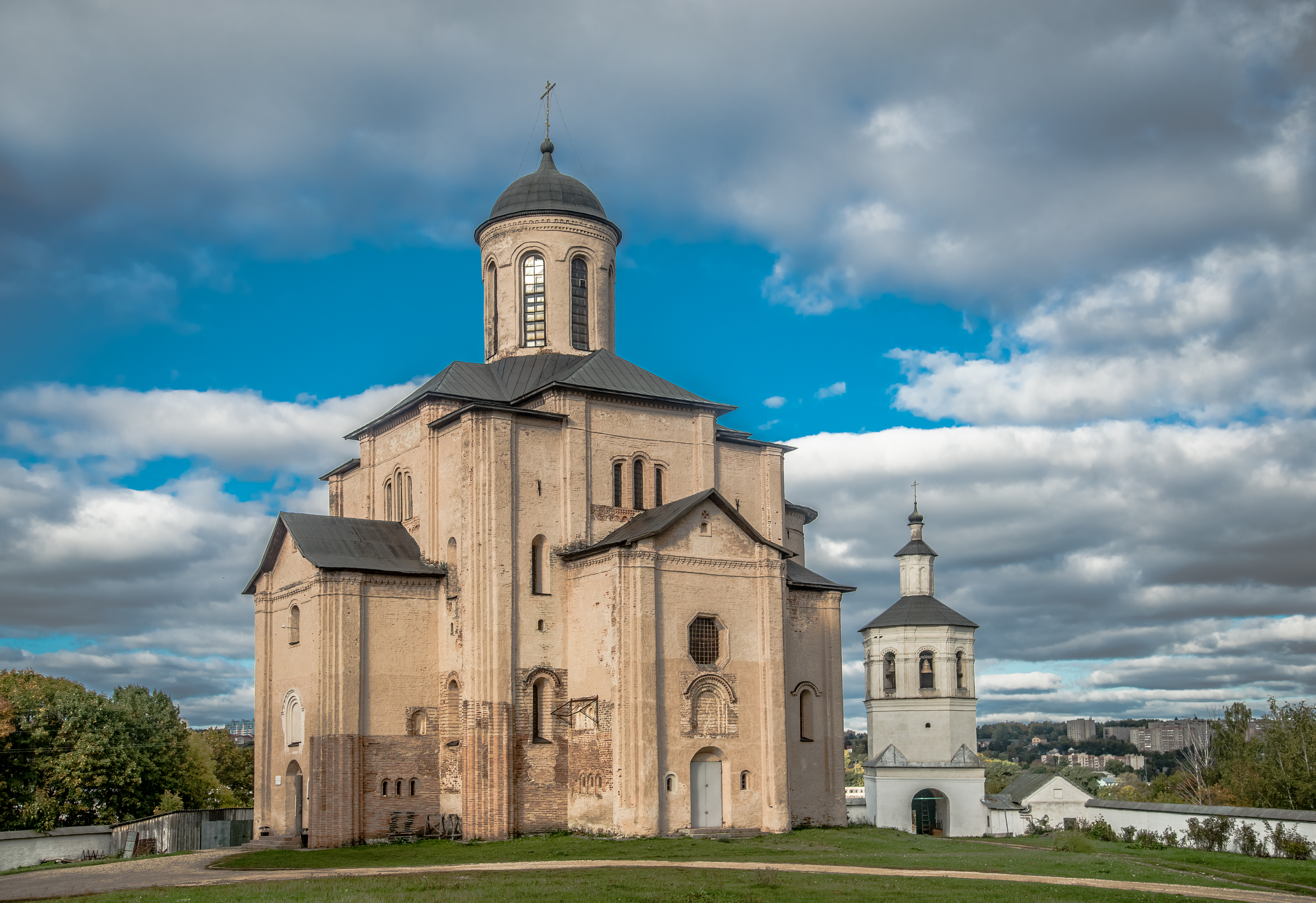 The Church Of Archangel Michael (Svirskaya). Park street, Smolensk, Russia